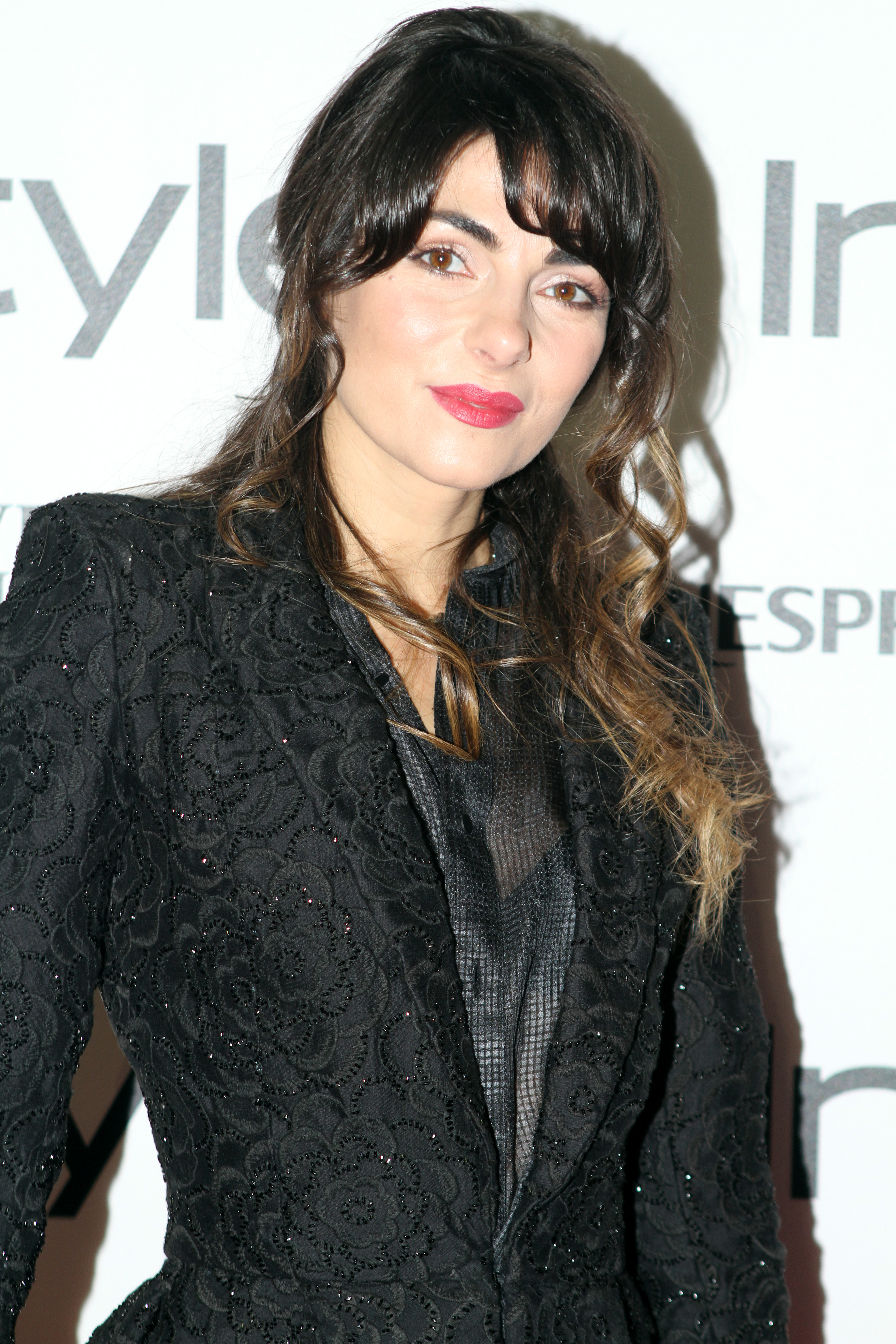 Instyle Awards 2015 InStyle and Audi Host Seventh Annual Woman Of Style Awards Red Carpet Gala Event